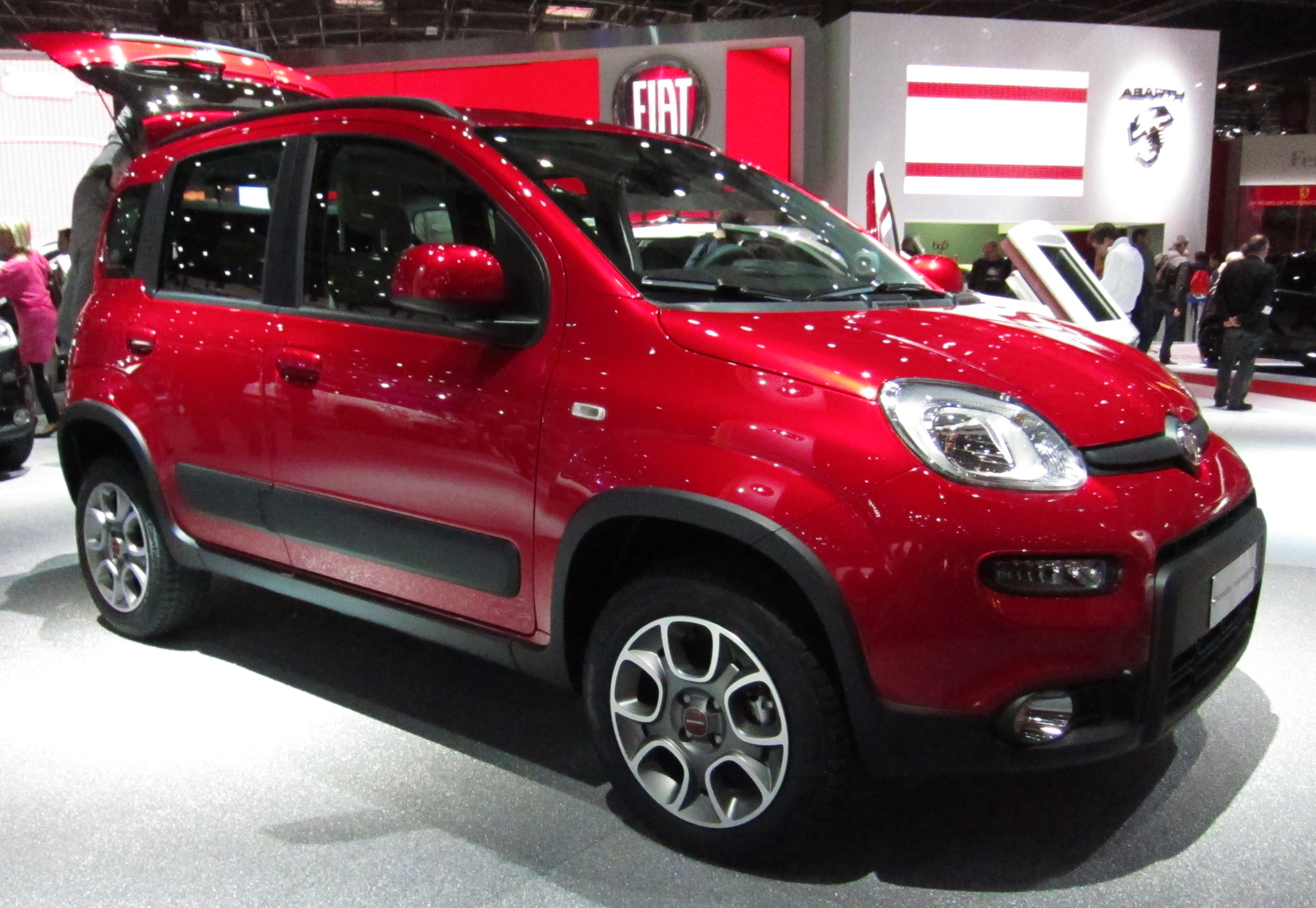 Fiat Panda Trekking at Mondial de l'Automobile Paris 2012